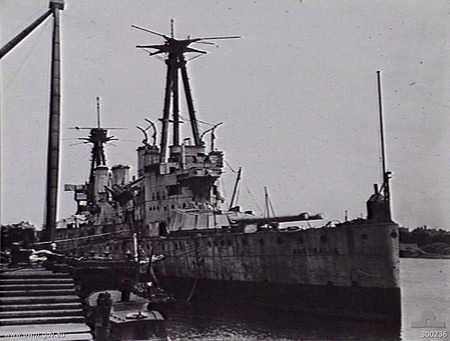 Australian War Memorial image 300236. Australian battlecruiser HMAS Australia' alongside at Garden Island. Much of her equipment has been removed and her hull has not been recently painted.